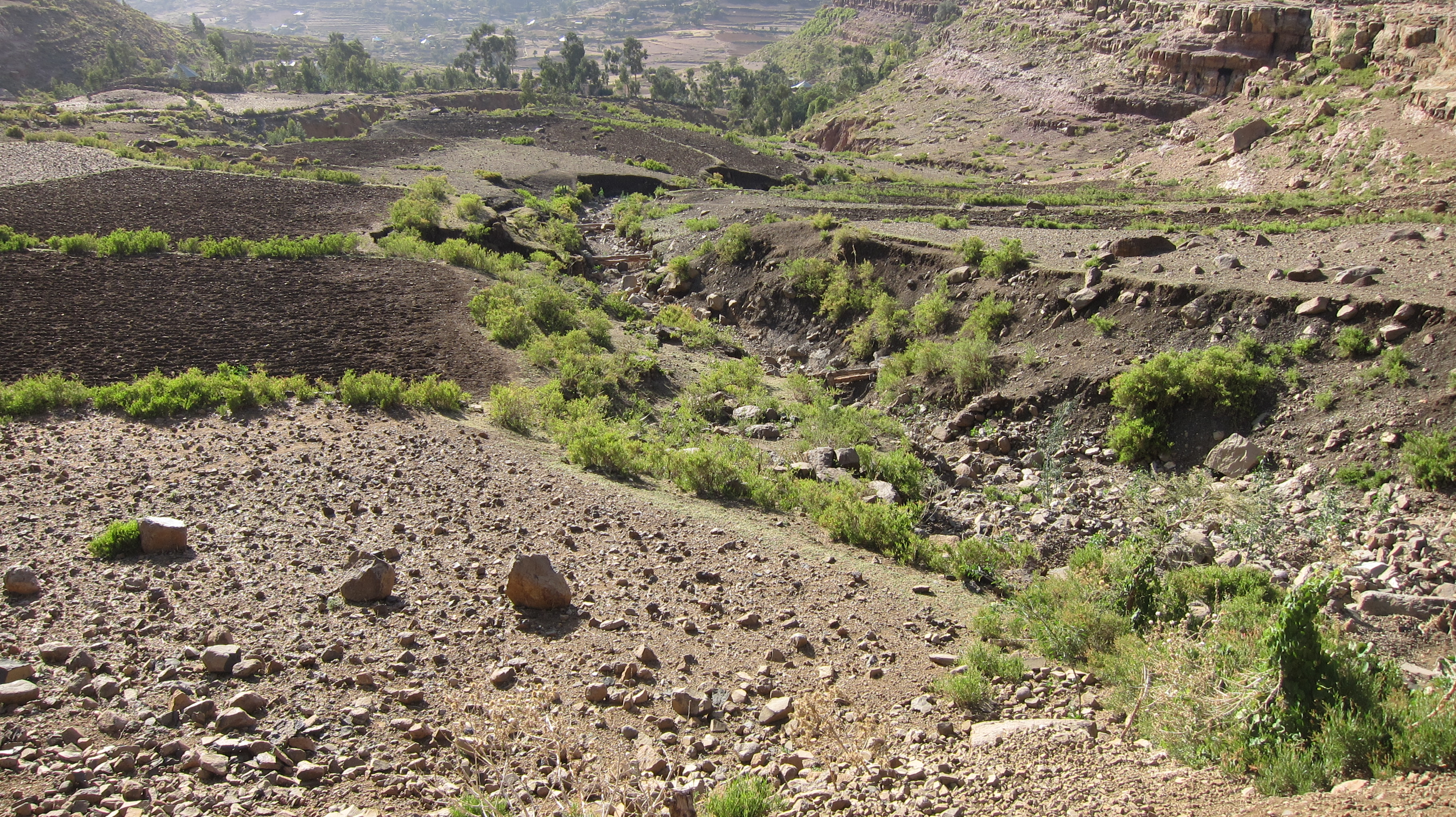 Adawro